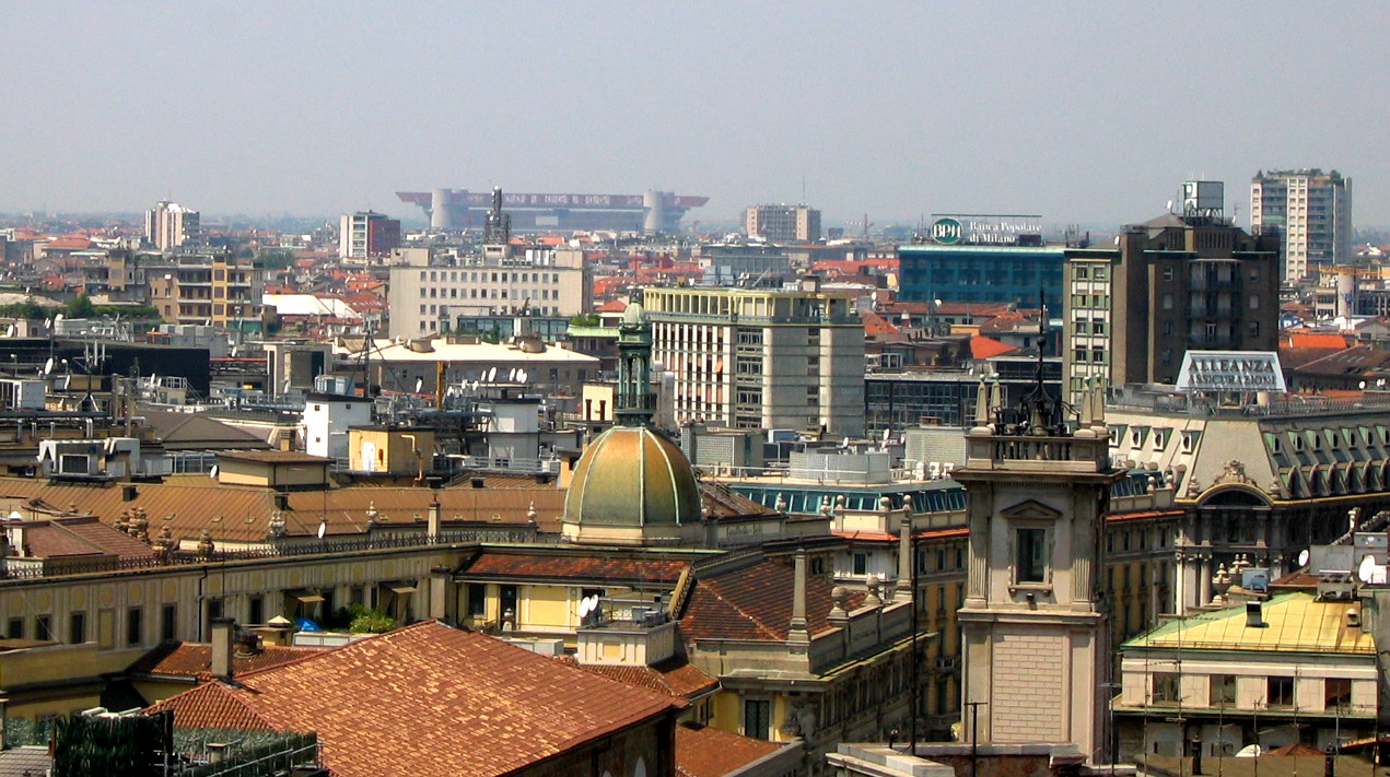 Panorama of Milan with San Siro stadium in background. Panorama Mediolanu ze stadionem San Siro w tle.